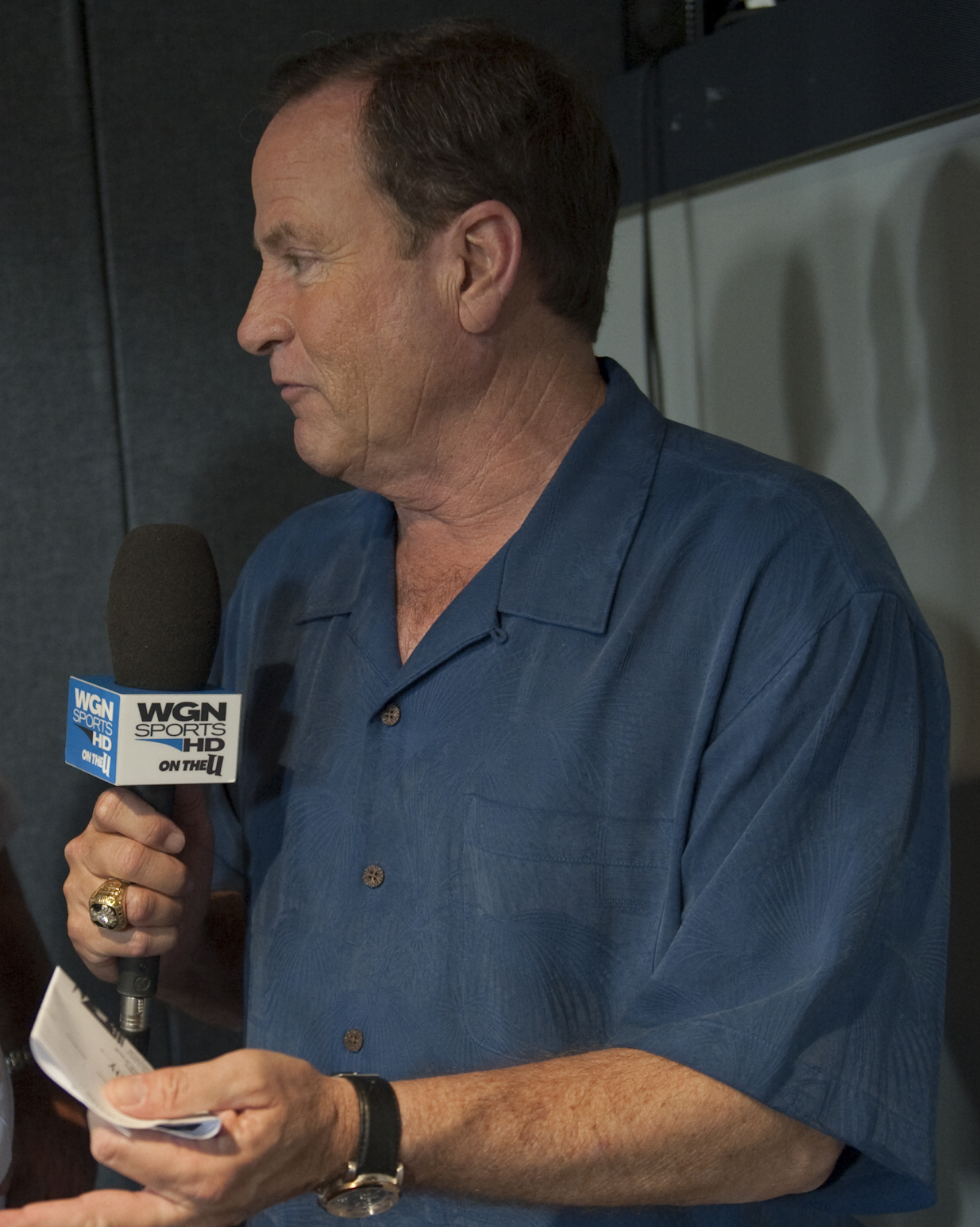 White Sox broadcaster and former player Steve Stone interviews Chairman of the Joint Chiefs of Staff Michael Mullen at |w|U.S. Cellular Field in 2010. This file has been extracted from another file: Steve Stone interviews Mike Mullen.jpg